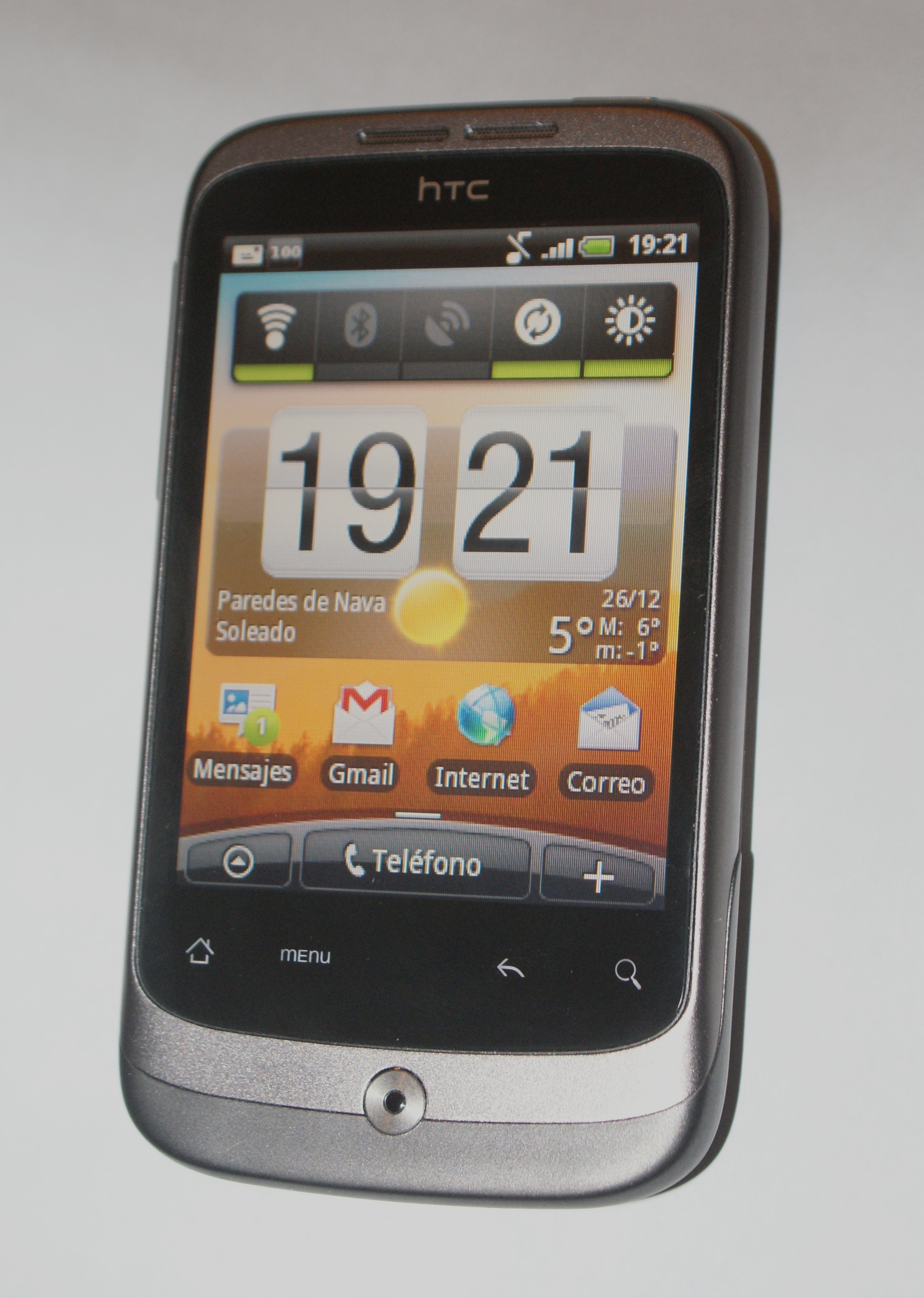 HTC Wildfire smartphone device.